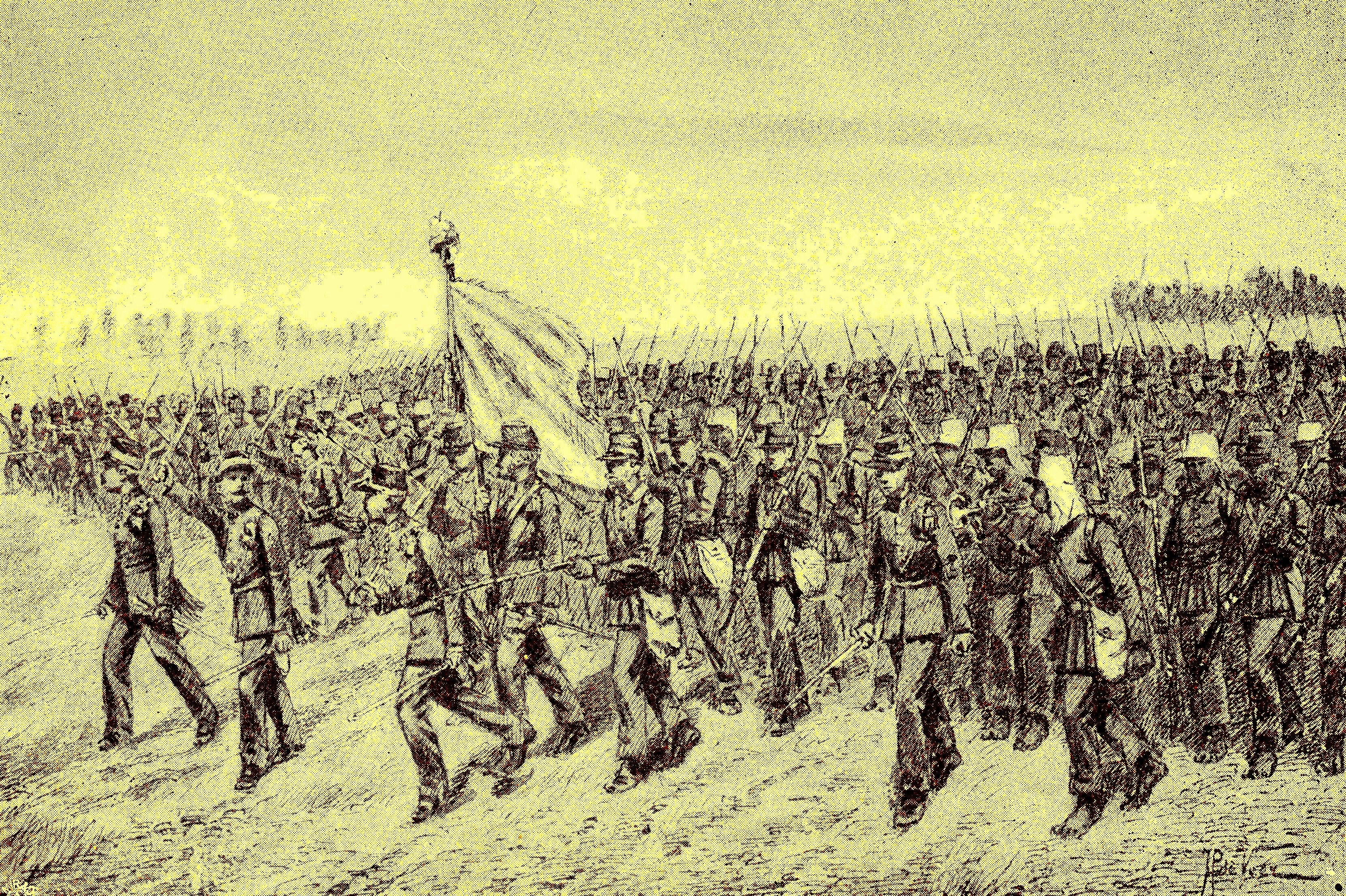 Aanval op Penandingan